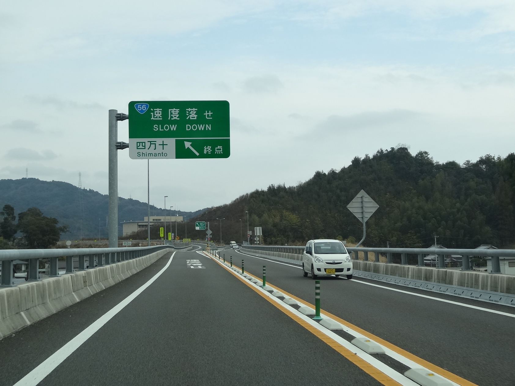 National Route 56 Nakamura-Sukumo Road in Shimanto City, Kochi Prefecture, Japan.